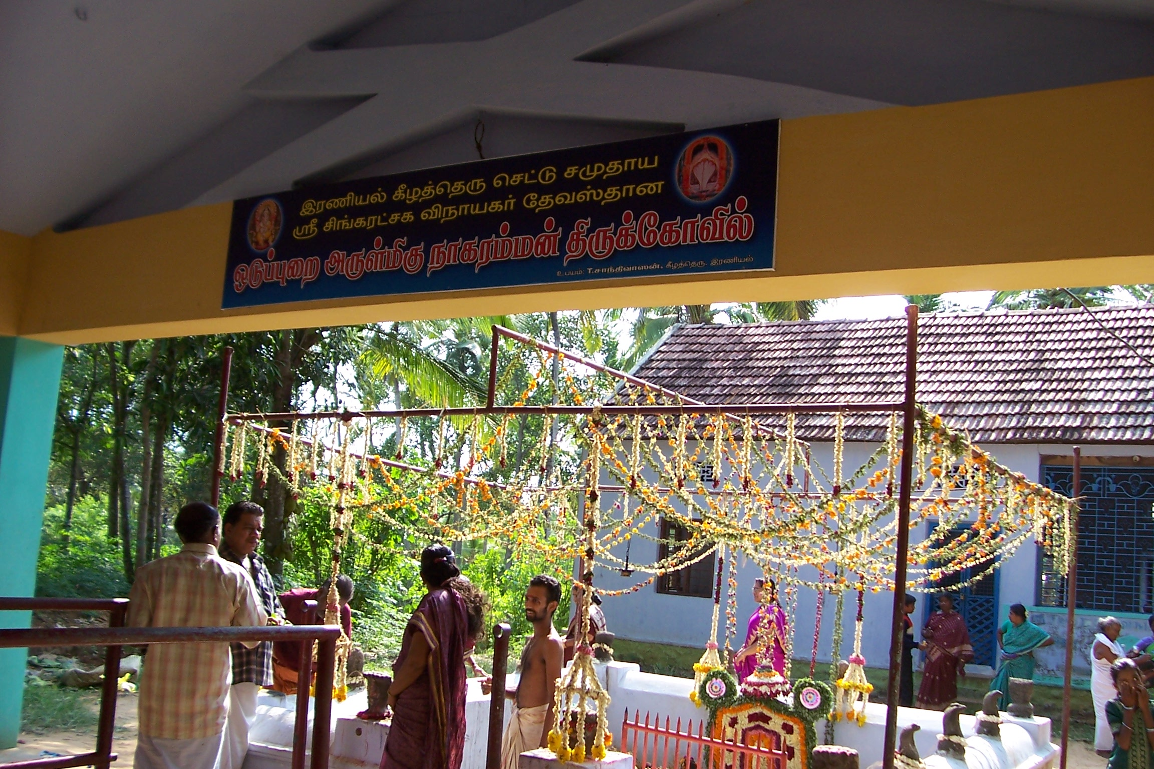 Photo taken by self.